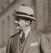 Former Congressman George H. Combs, Jr. in 1927; photo from ”Youth and Old Age at Opening of Congress.”